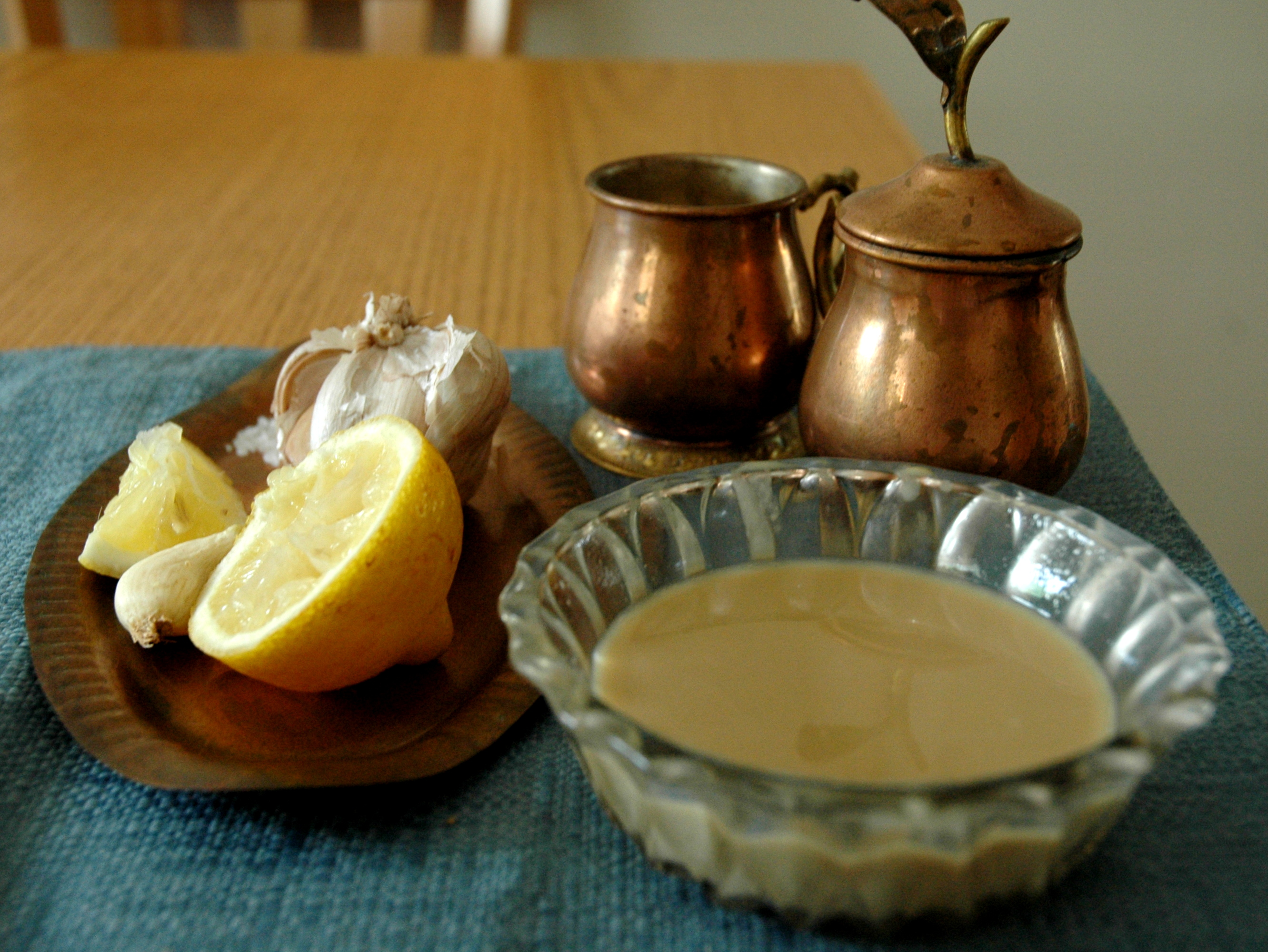 Dish of tahina with lemon and garlic